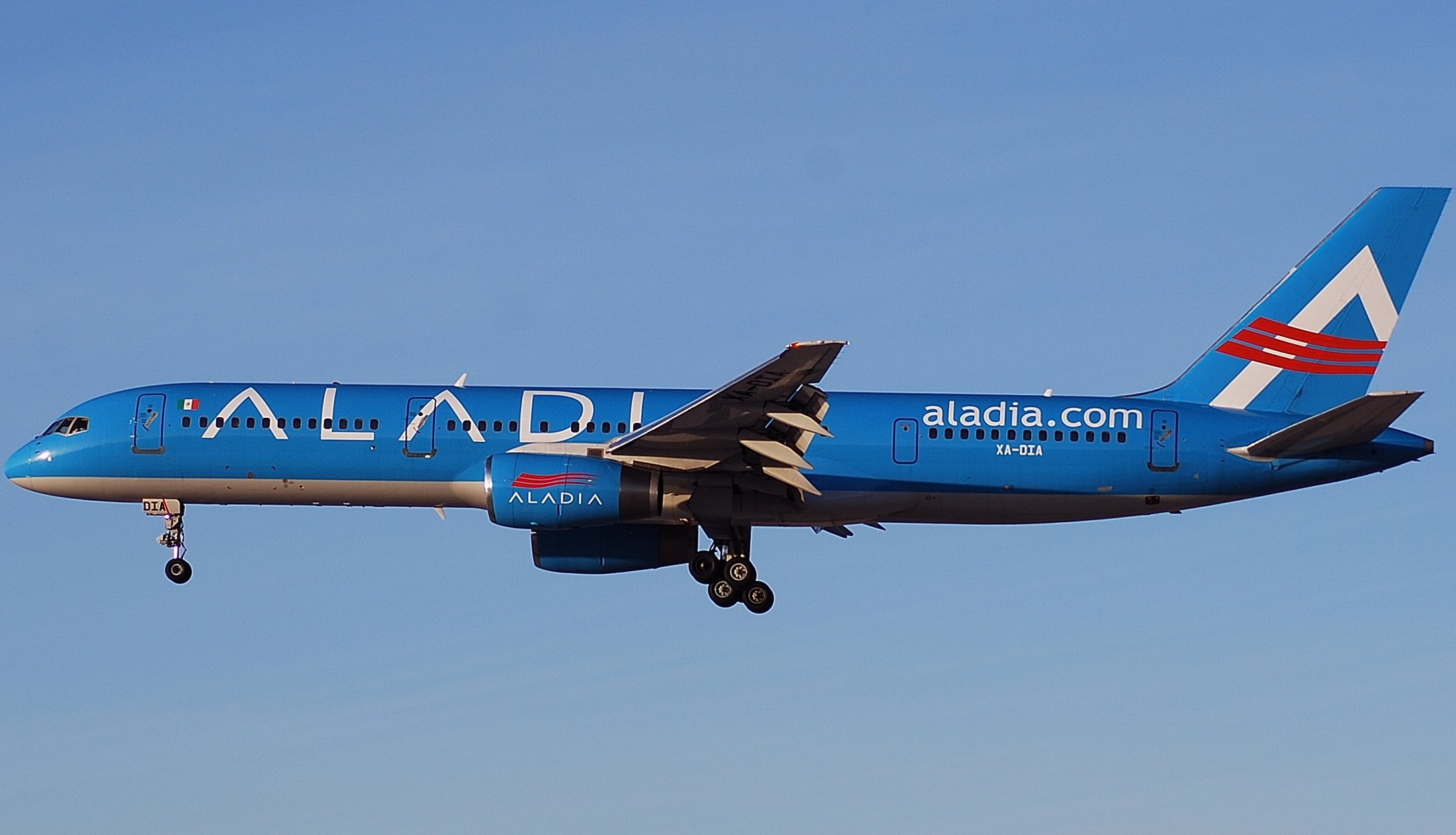 An Aladia Boeing 757 at McCarran International Airport, Las Vegas